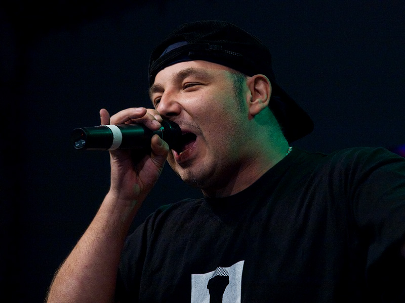 Tachiles at offside festival 2008